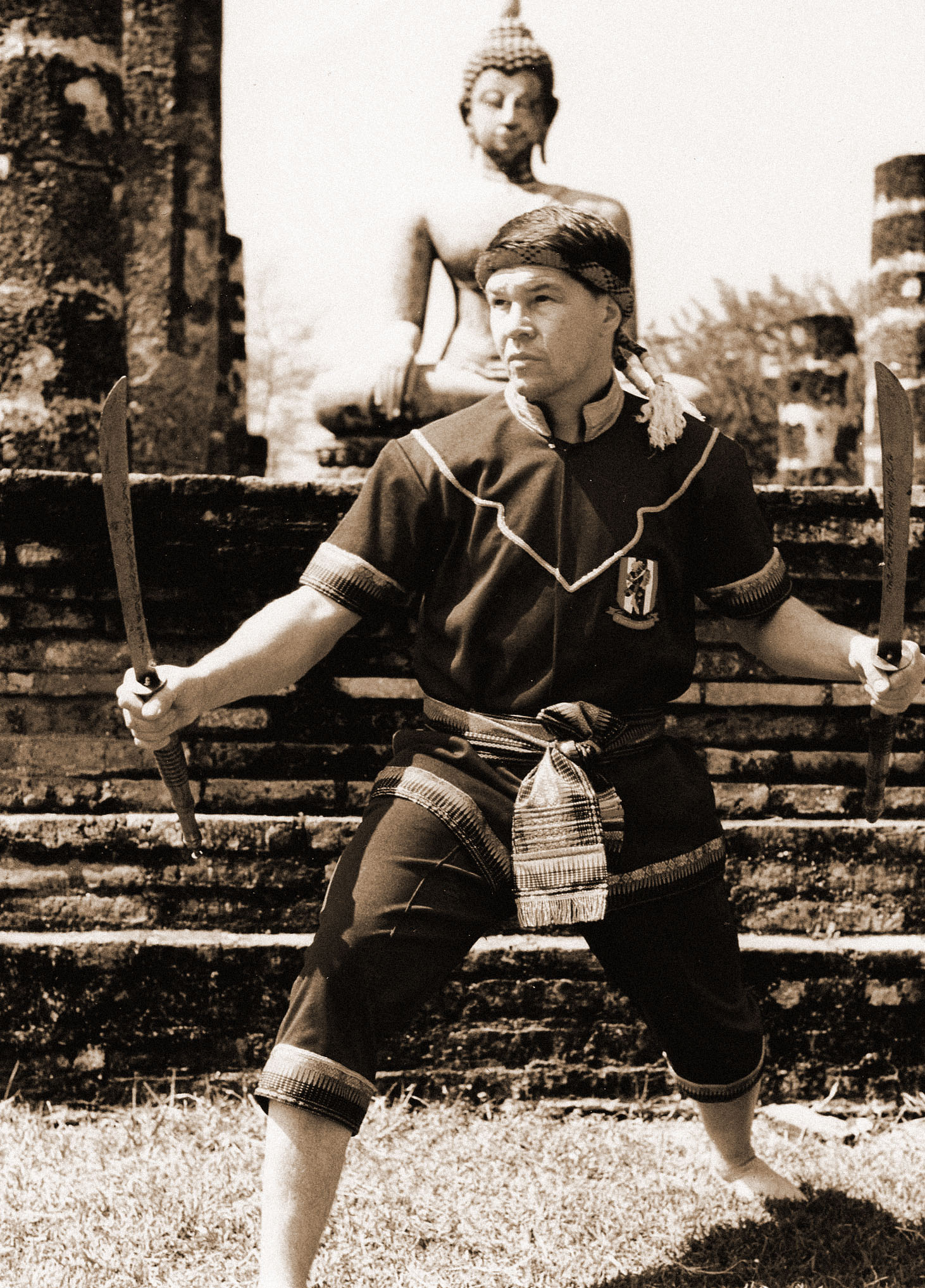 Kru Tony Moore, Buddhai Swan, Thailand.